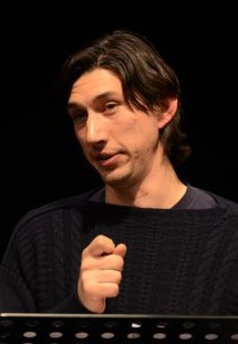 GRAFENWOEHR, Germany, Germany - Actor and U.S. Marine Corps veteran Adam Driver connects with the audience as he performs a monologue from Sam Shepard's play, "Curse of the Starving Class," during the Arts in the Armed Forces performance at the Grafenwoehr Performing Arts Center in Germany, Dec. 18, 2013.